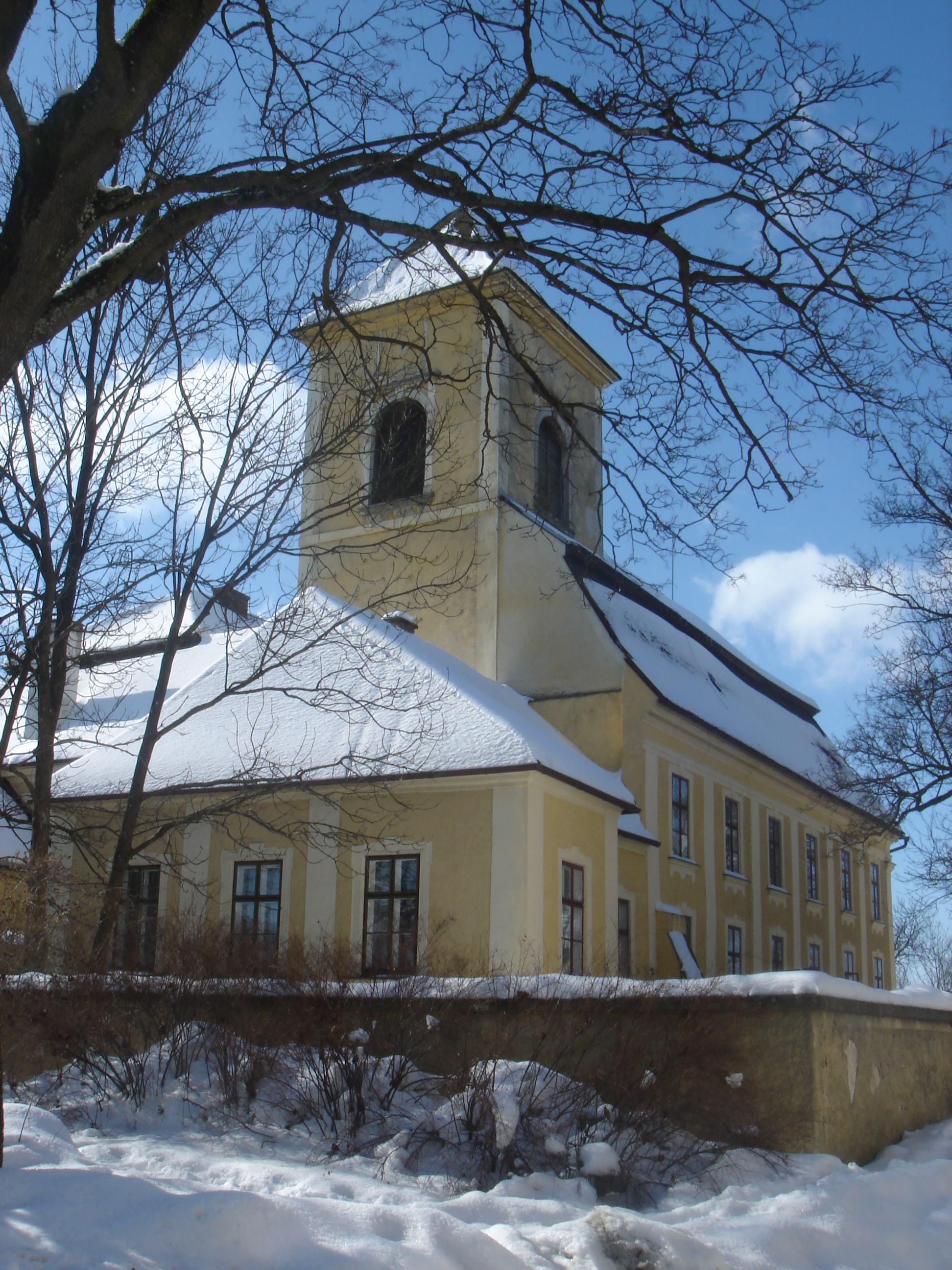 Castle of Kirchberg an der Wild in the winter time